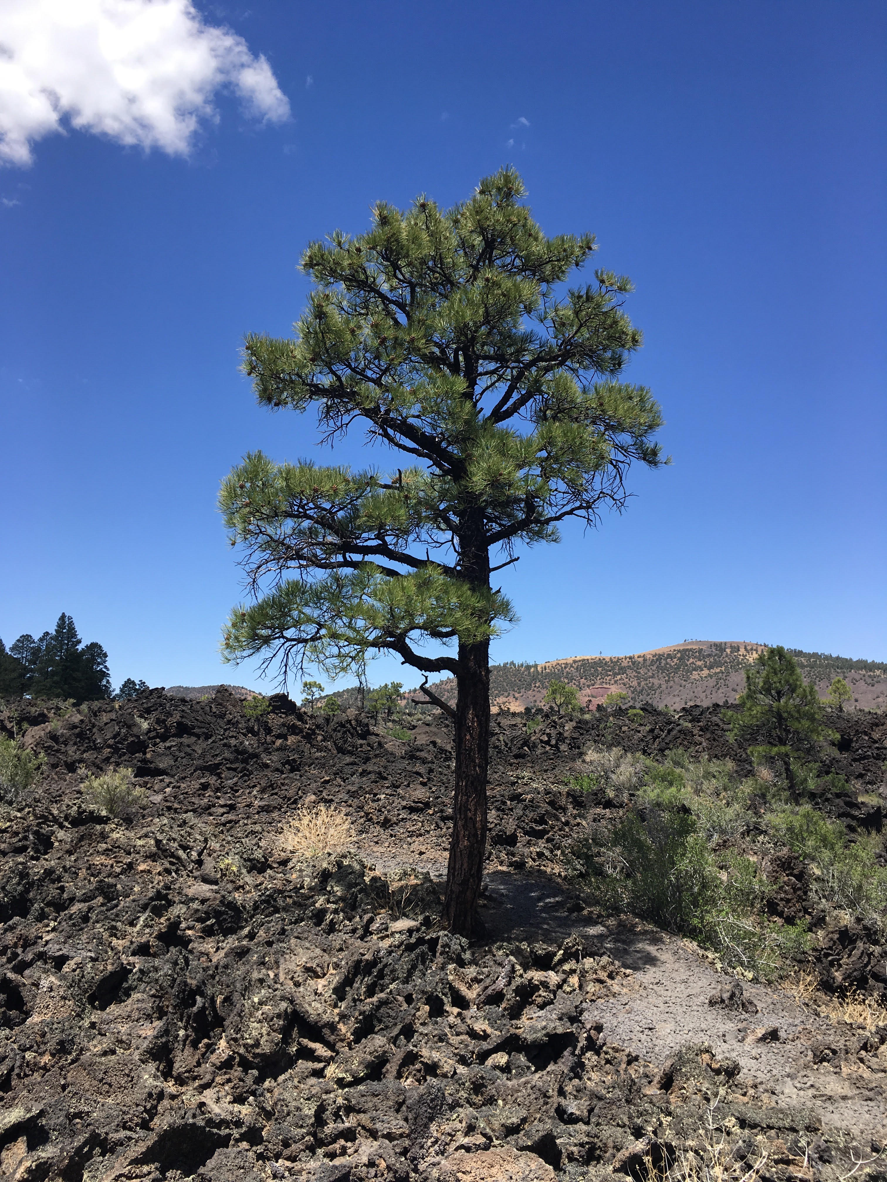 At Sunset Crater National Monument, a pine tree grows on top of the lava flow formed thousand years ago.